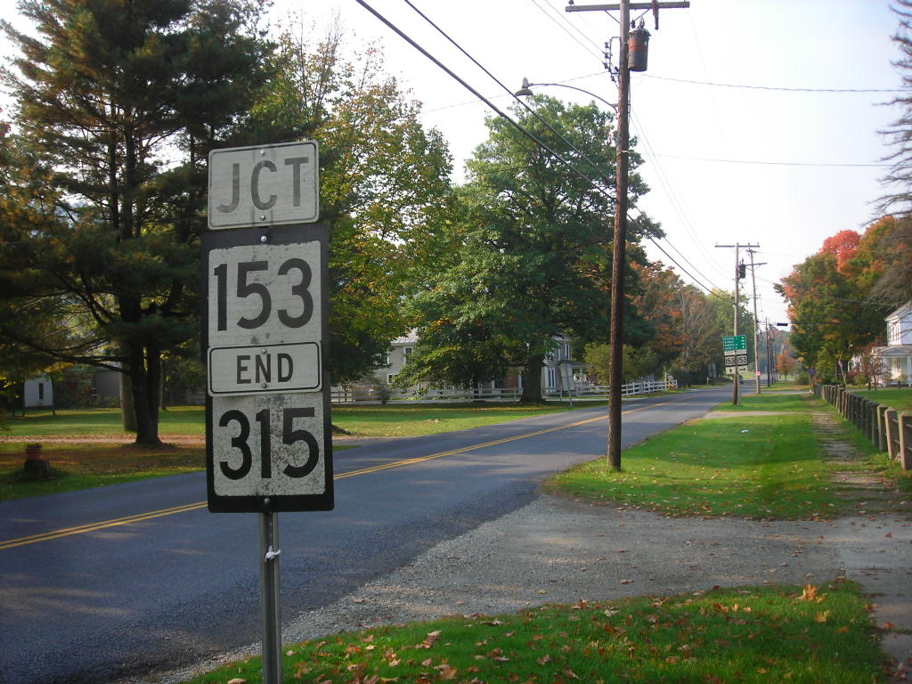 Vermont State Route 315 at its western terminus with Route 153 in Rupert, Vermont. This town signage is old-style and not used in Vermont anymore.